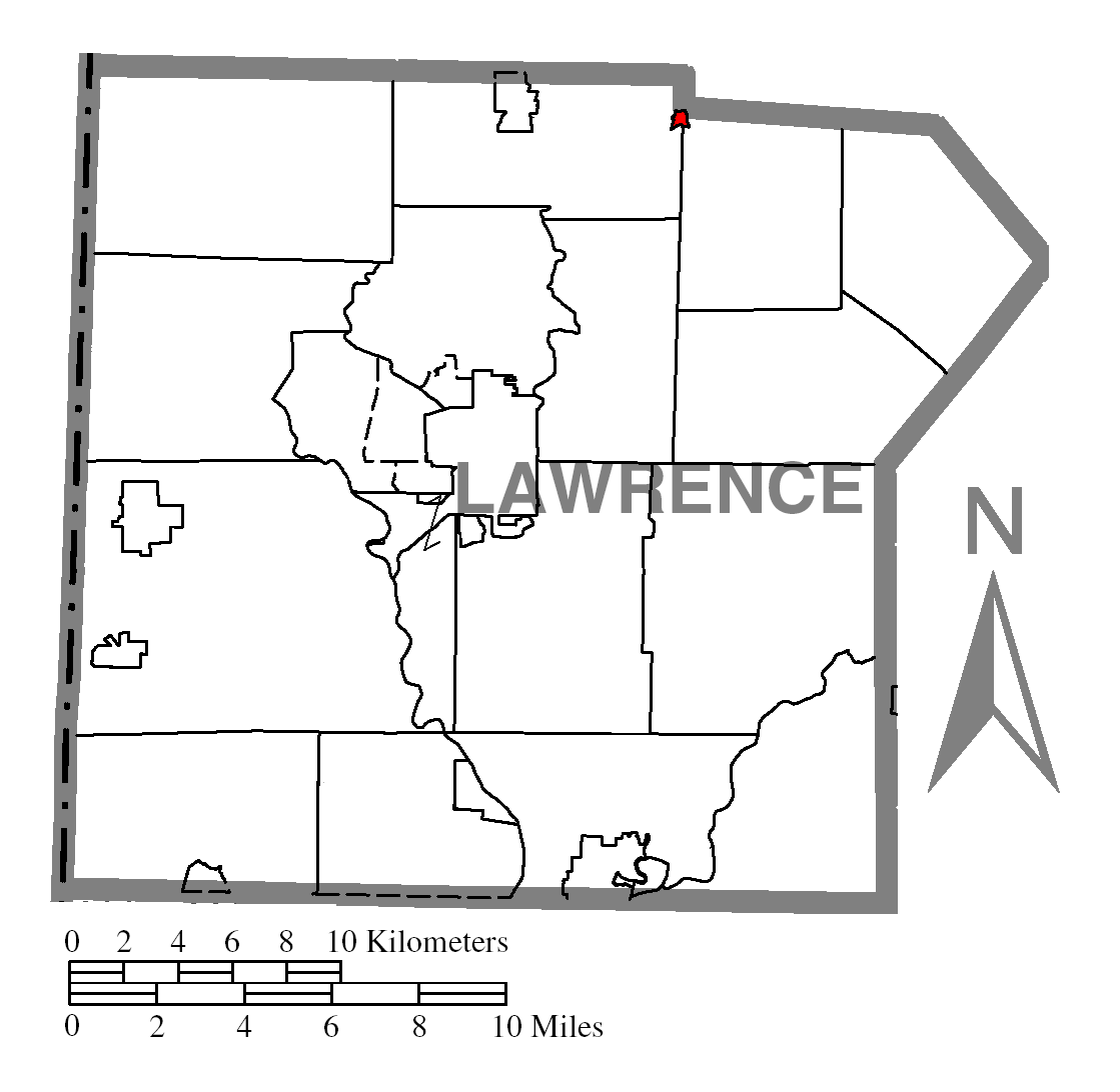 Map of Lawrence County higlighting Volant.